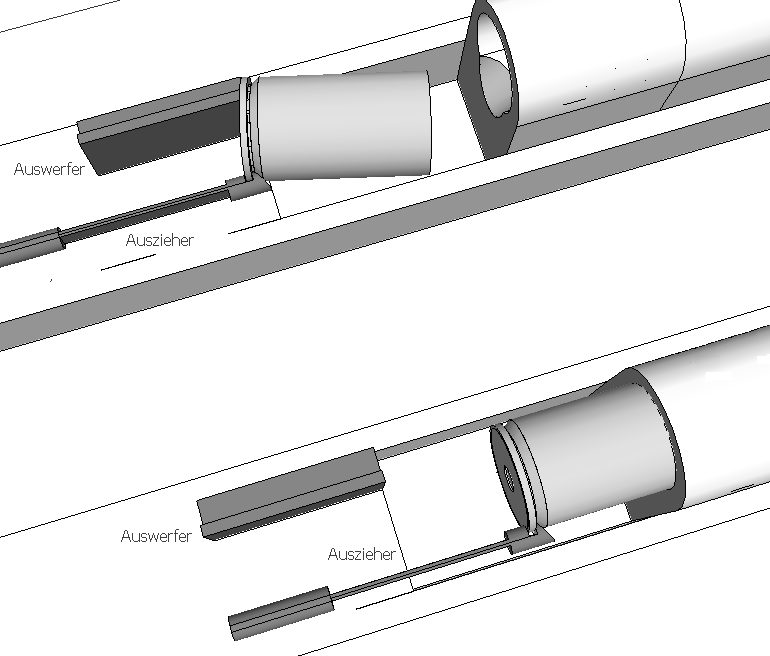 extract and eject a cartridge